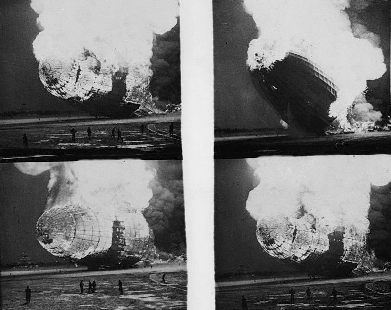 Composite of four photos taken after the crash of the airship Hindenburg, extracted from the Pathe newsreel footage of the disaster